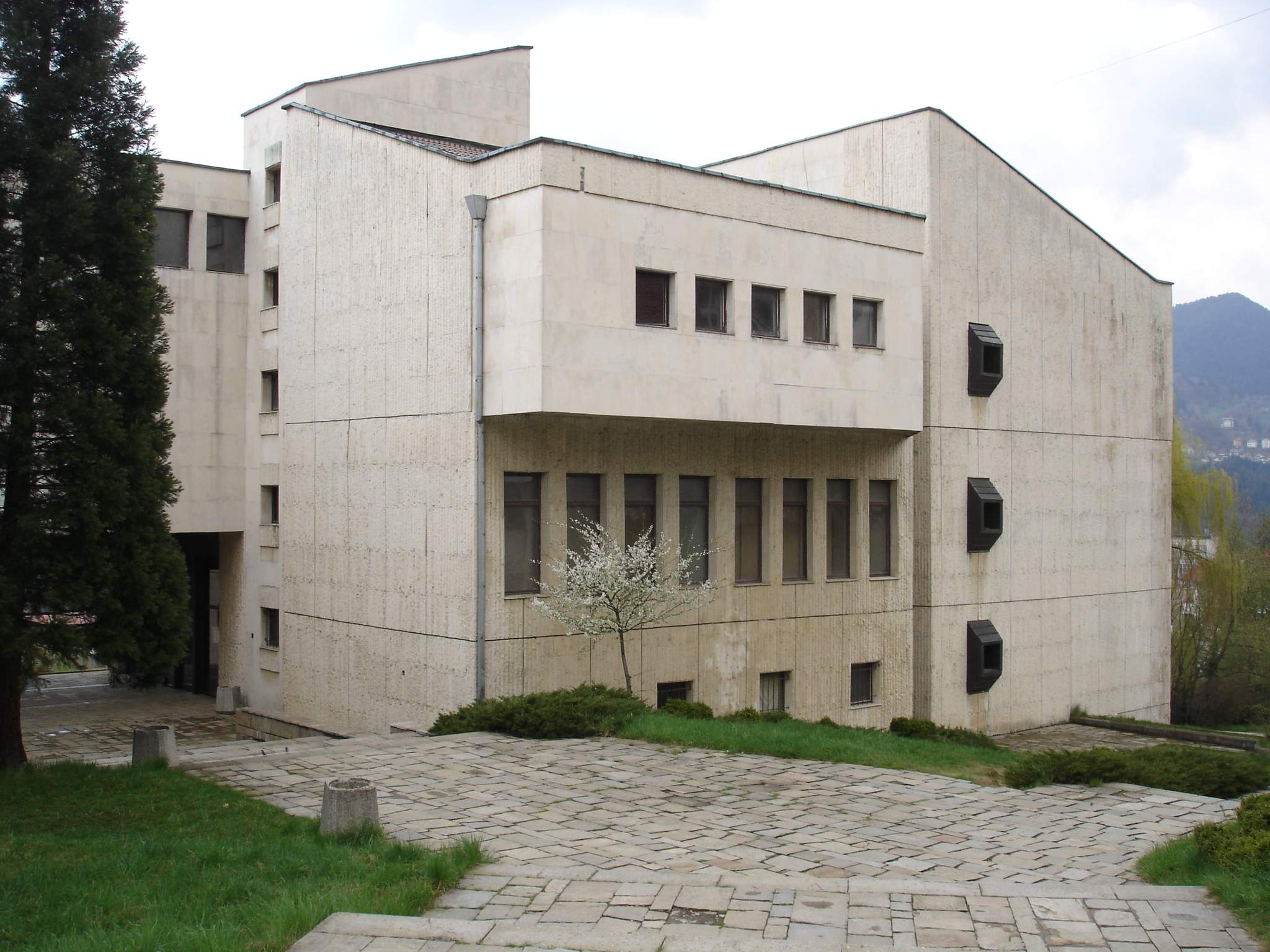 The historical museum in Smolian, Bulgaria